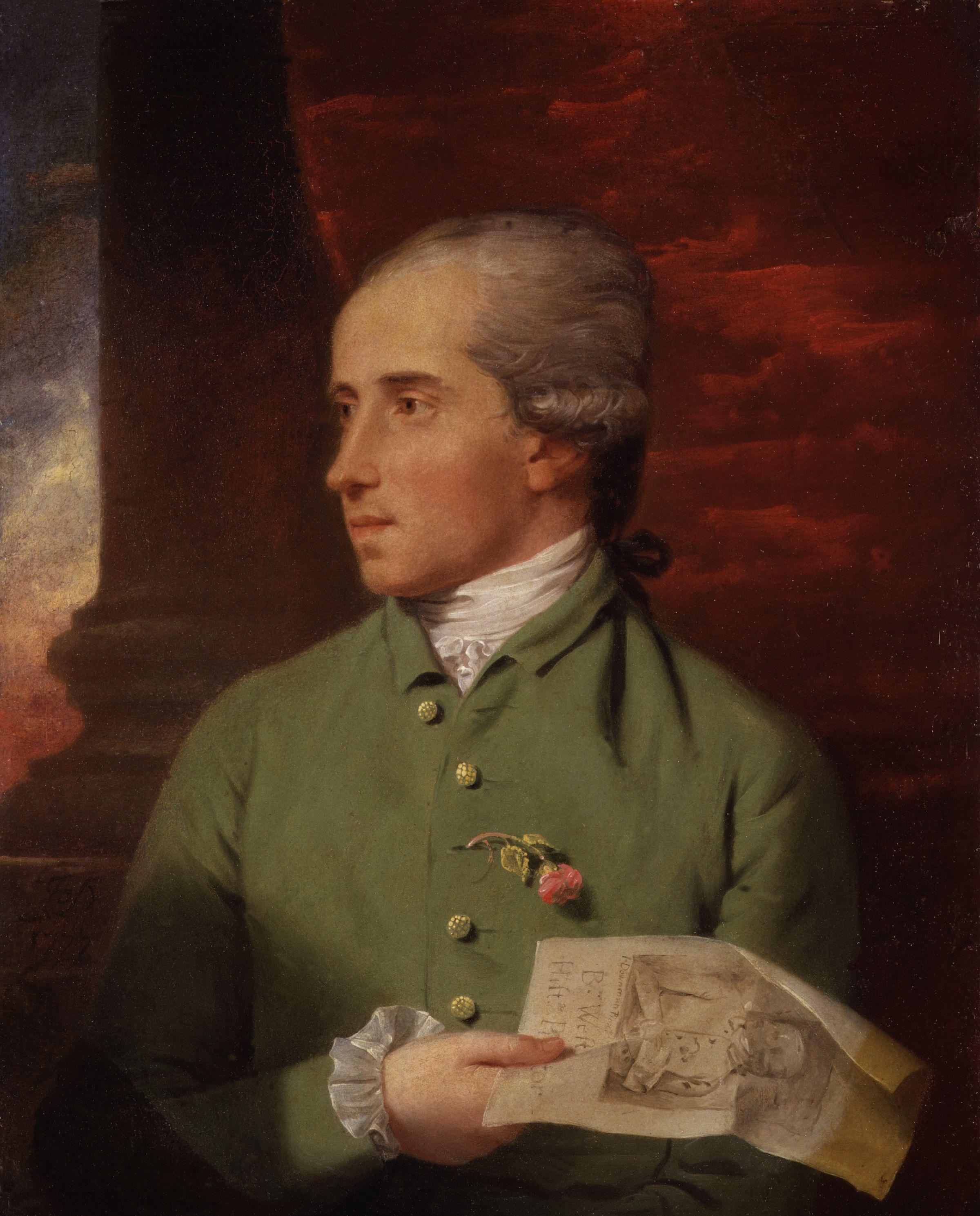 Benjamin West, (1738-1820), by John Downman (died 1824). All images in this batch have been confirmed as author died before 1939 according to the official death date listed by the NPG.